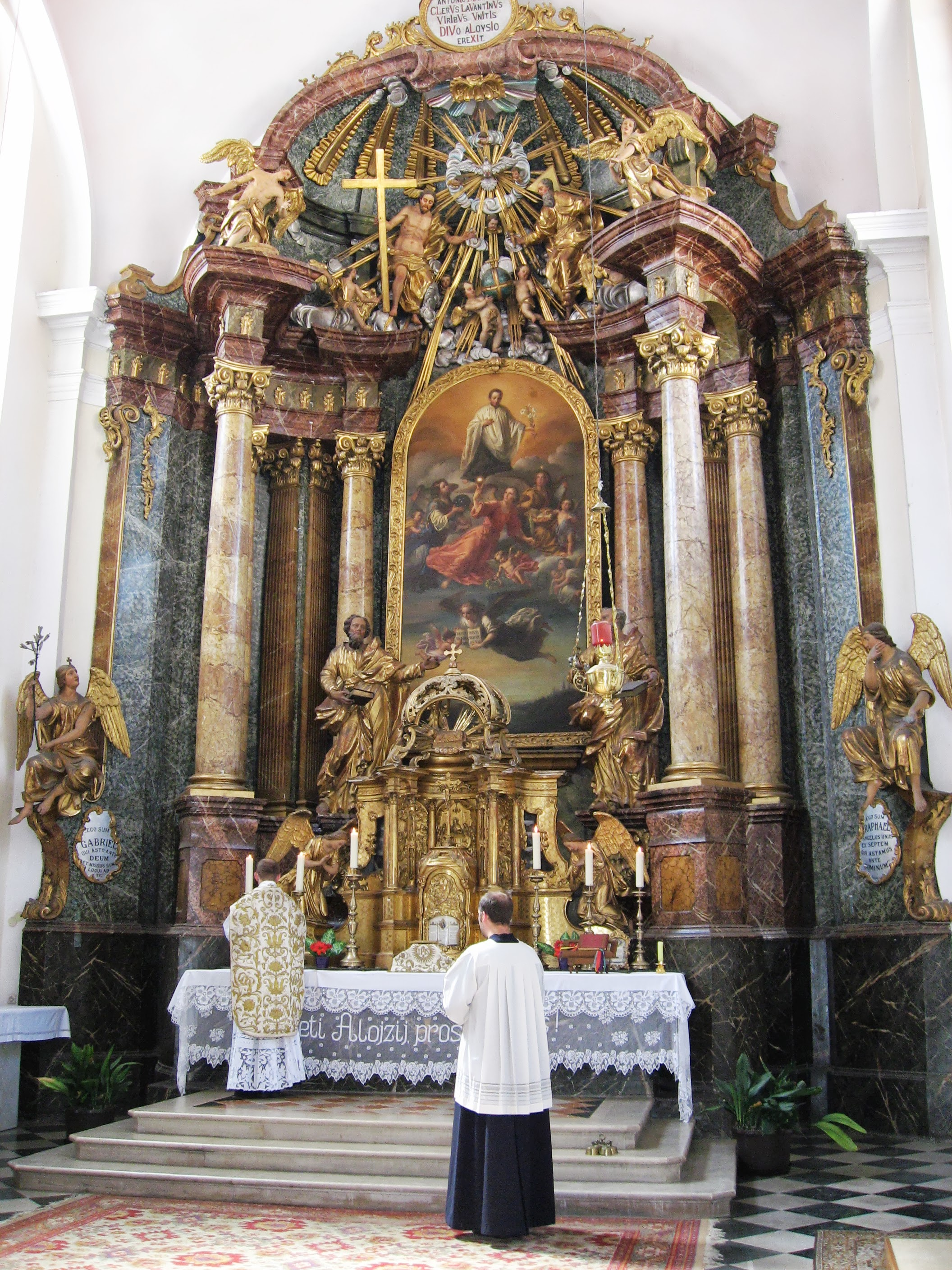 Reading of the Last Gospel